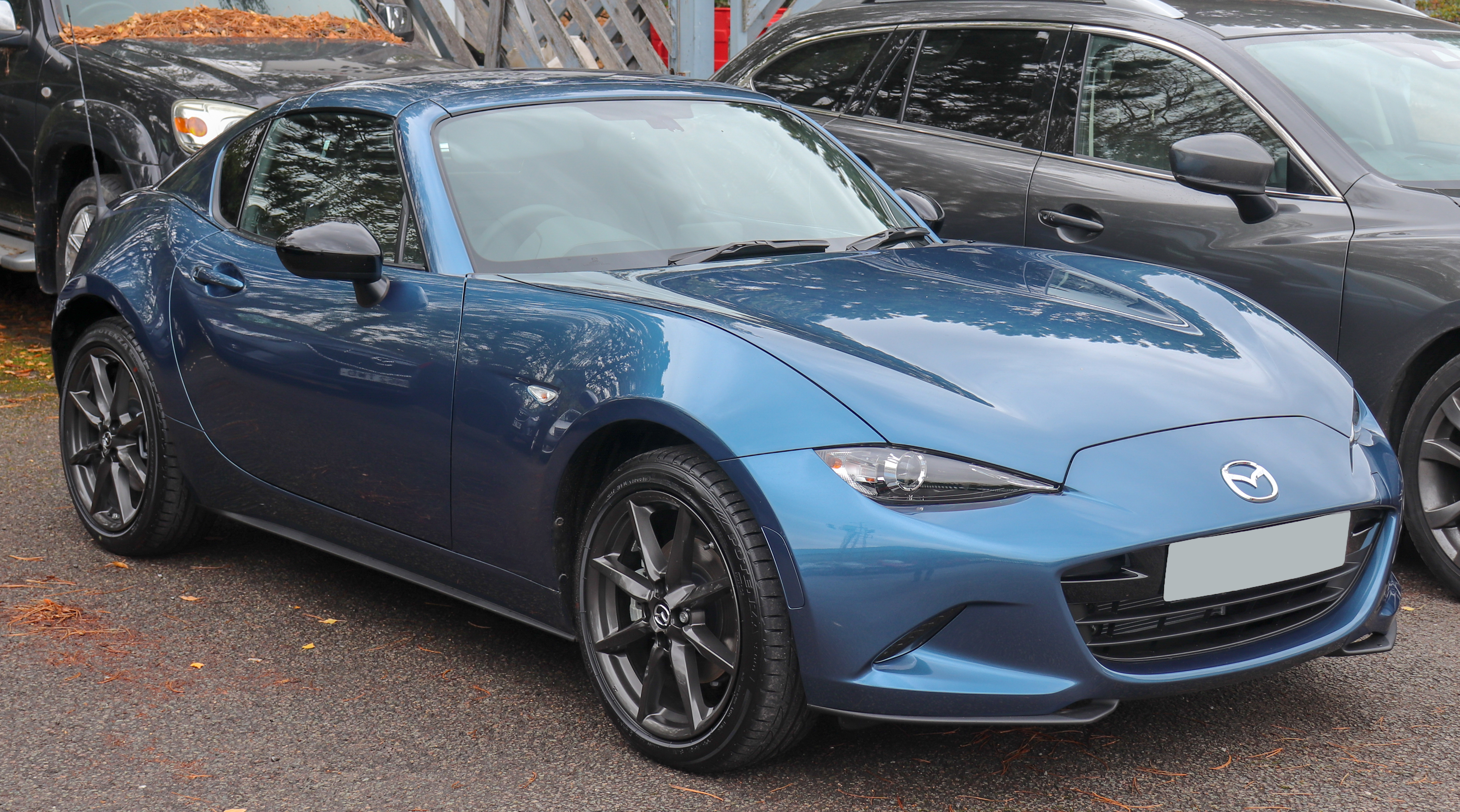 2018 Mazda MX-5 RF Sport 2.0 Front Taken in Leamington Spa